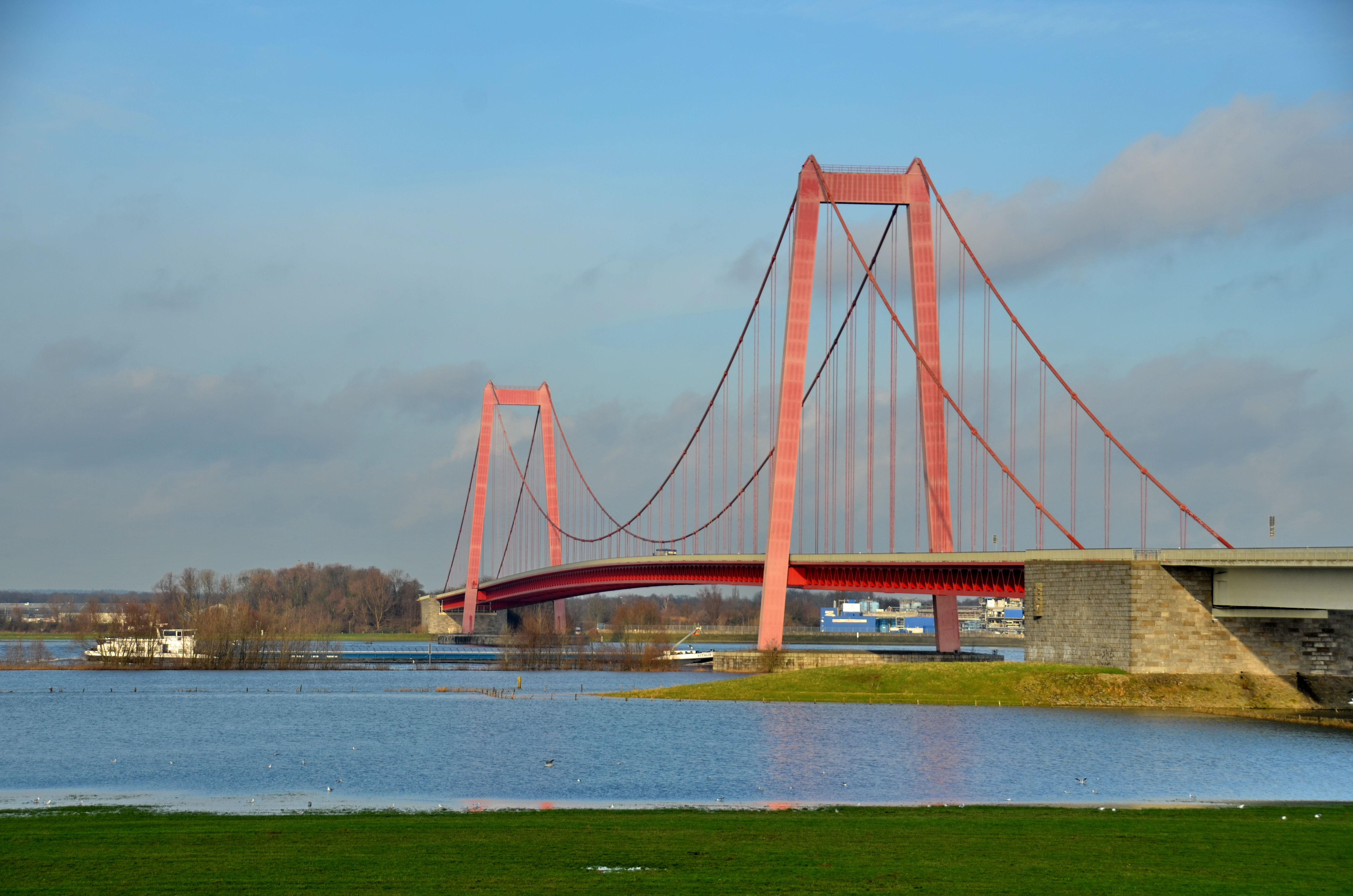 The 500 m long mainspan of the Emmerich Rhine suspension-bridge at 2 Januari 2013